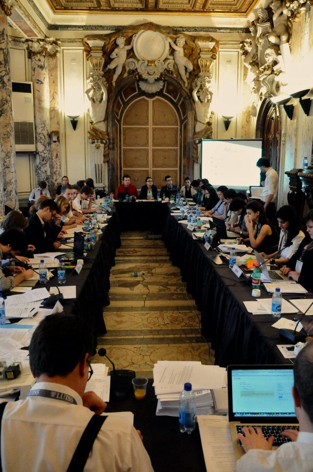 IAPSS General Assembly 2013, Rome, Italy.